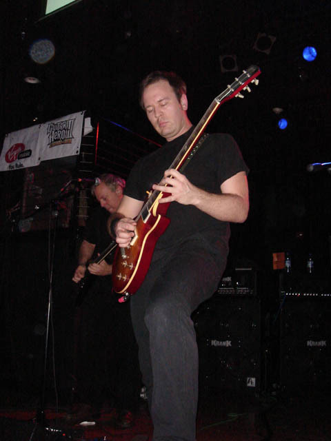 Brendon Small.